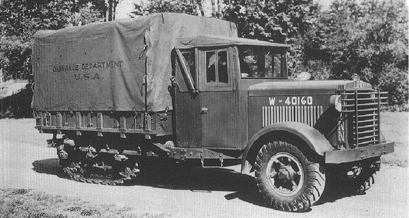 The Linn T6 semi-tracked artillery tractor furnished to the U.S. Army in Hawaij with the rear canvas cover and the side curtains installed.